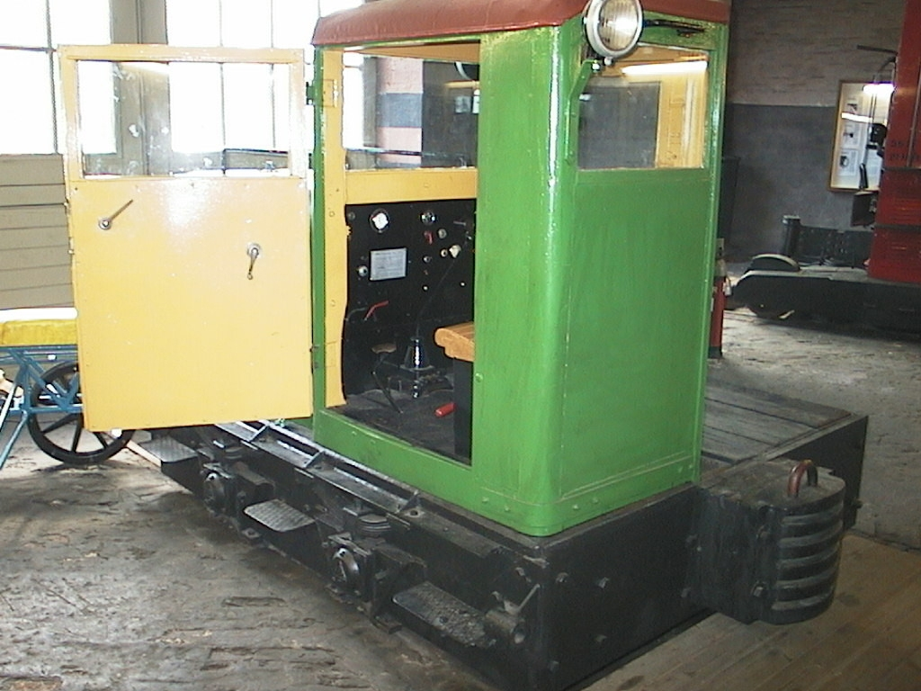 A Pedershaab diesel locomotive at Toijala Locomotive Museum in Akaa, Finland